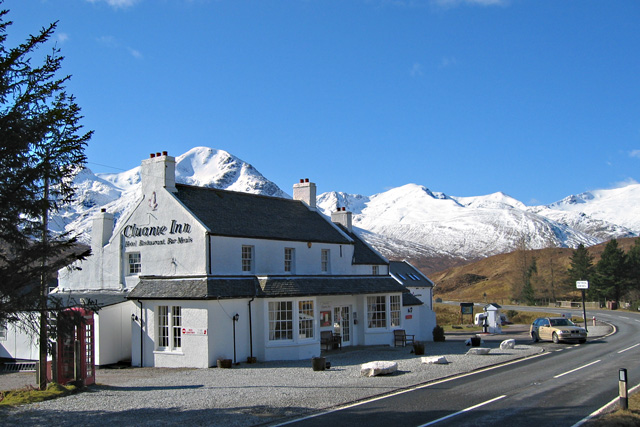 Cluanie Inn Petrol, food, drink and beds - all a long way from the closest competition.